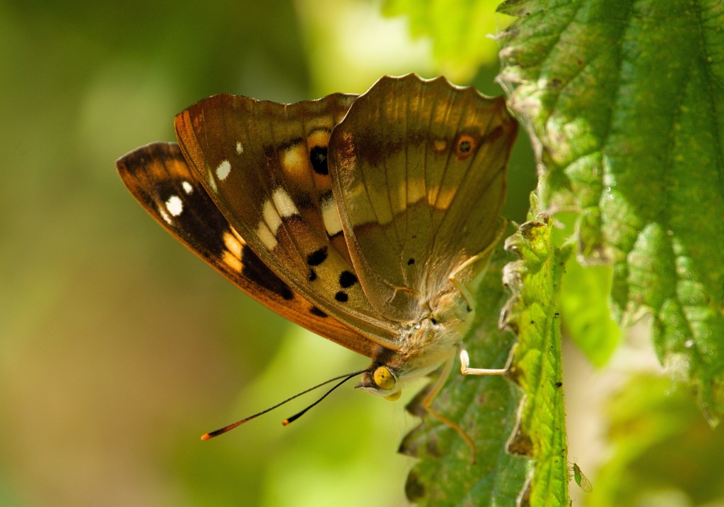 Buterflie, Lesser purple Emperor